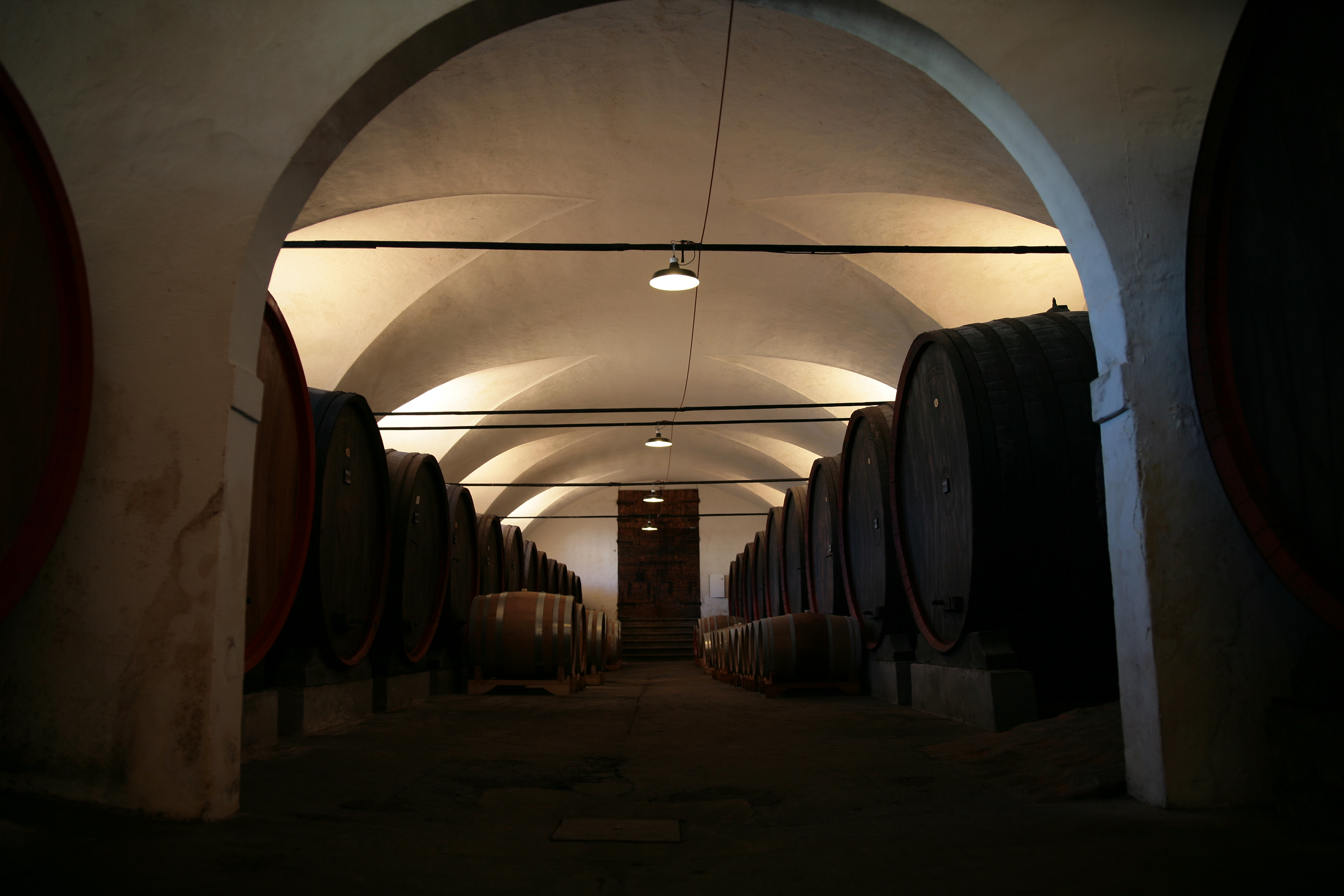 Cantine Villa Widmann